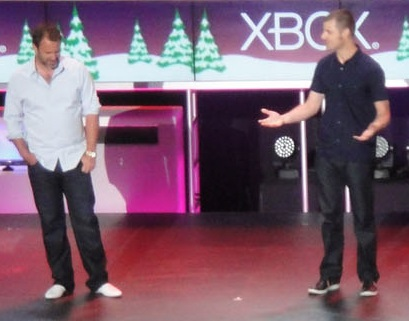 E3 Expo 2012 (Microsoft Press Event). Matt Stone and Trey Parker talking about South Park: The Stick of Truth.